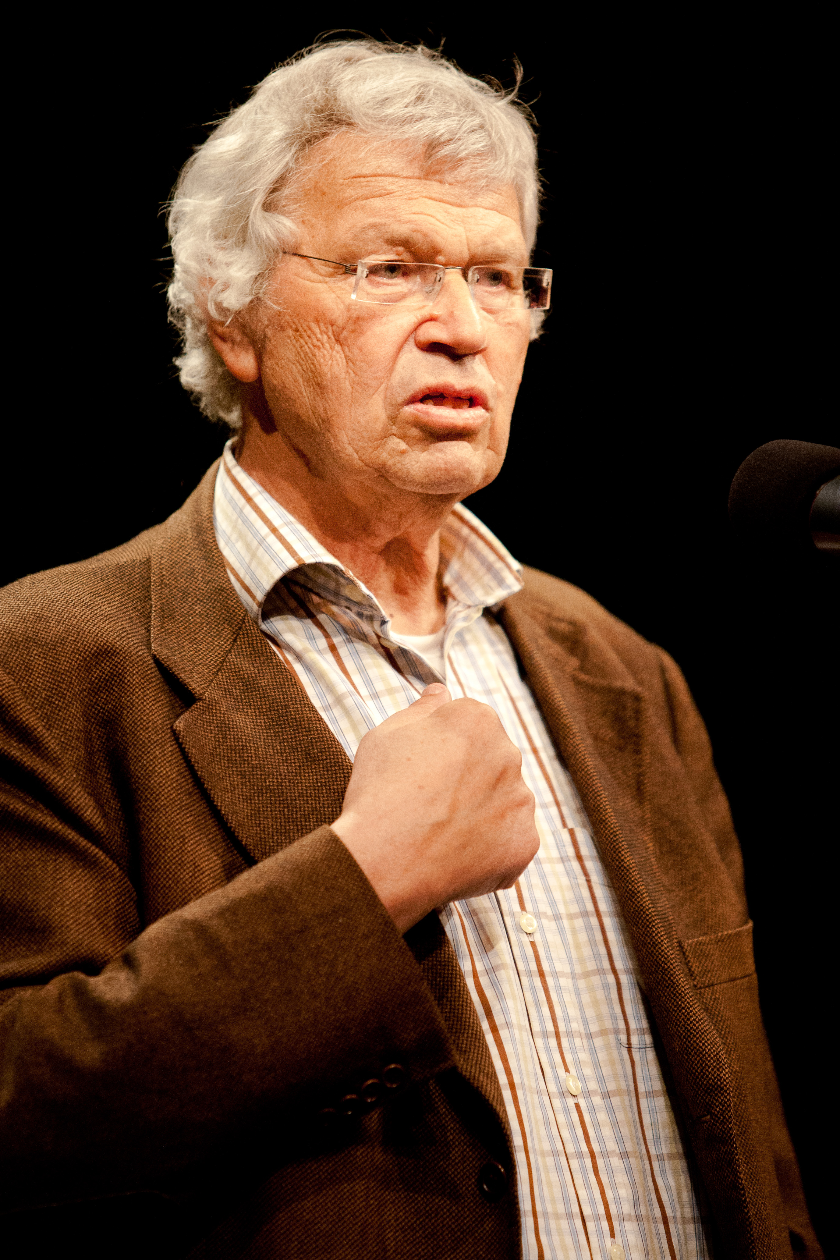 Gerhard Polt at Pantheon-Theater, Bonn, Germany